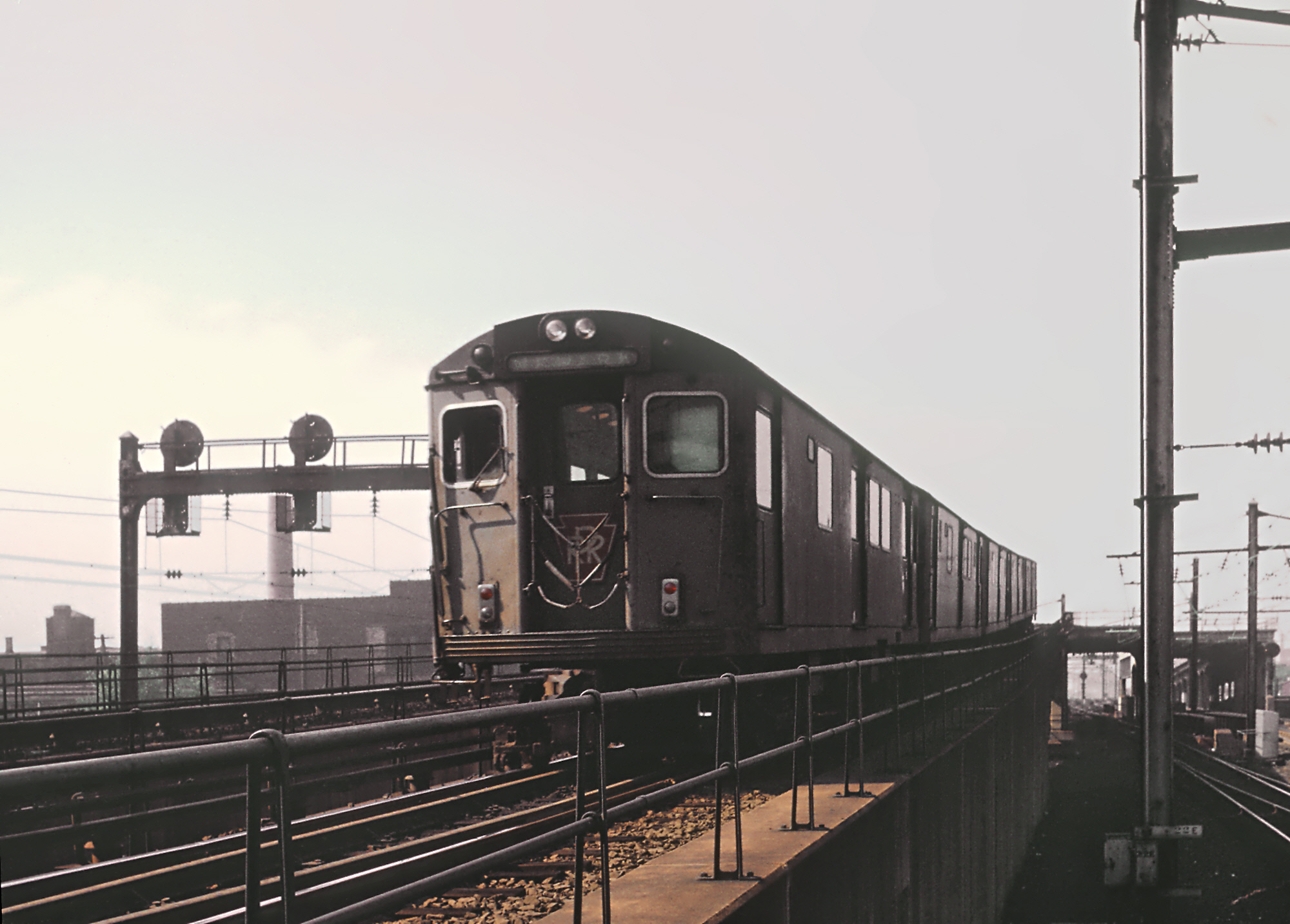 A PATH train at Newark Penn Station in September 1966. Note the Pennsylvania Railroad keystone obstructed by the chains over the front doorway.